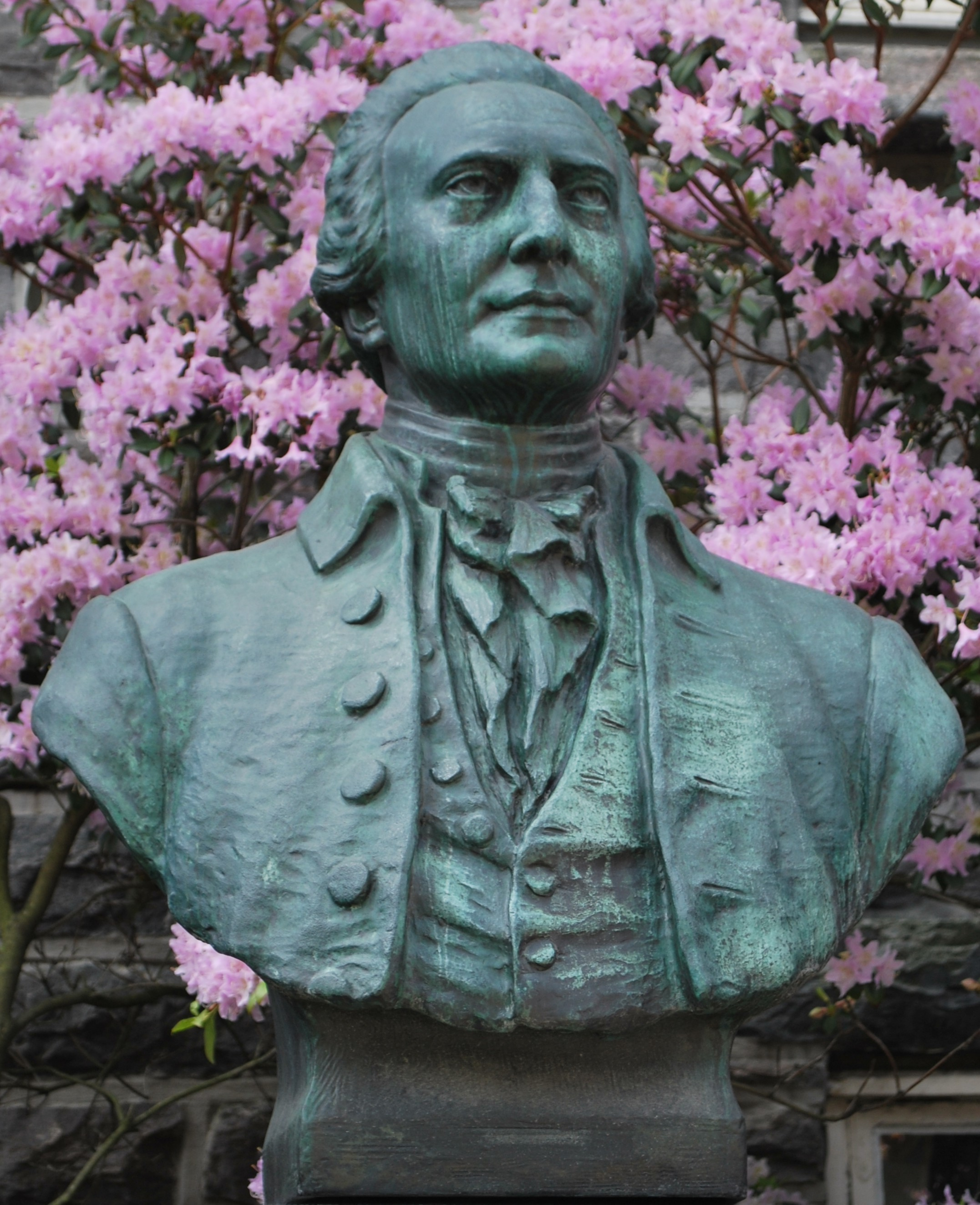 Claus Fasting, Norwegian writer and musician. Bust by Ambrosia Tønnesen, outside Bergen Public Library, Bergen, Norway.